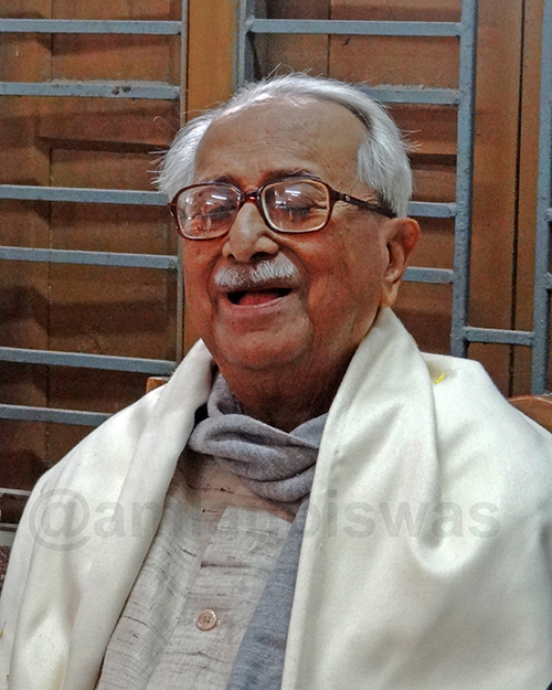 General Secretary, All India Forward Bloc, West Bengal State since 1946